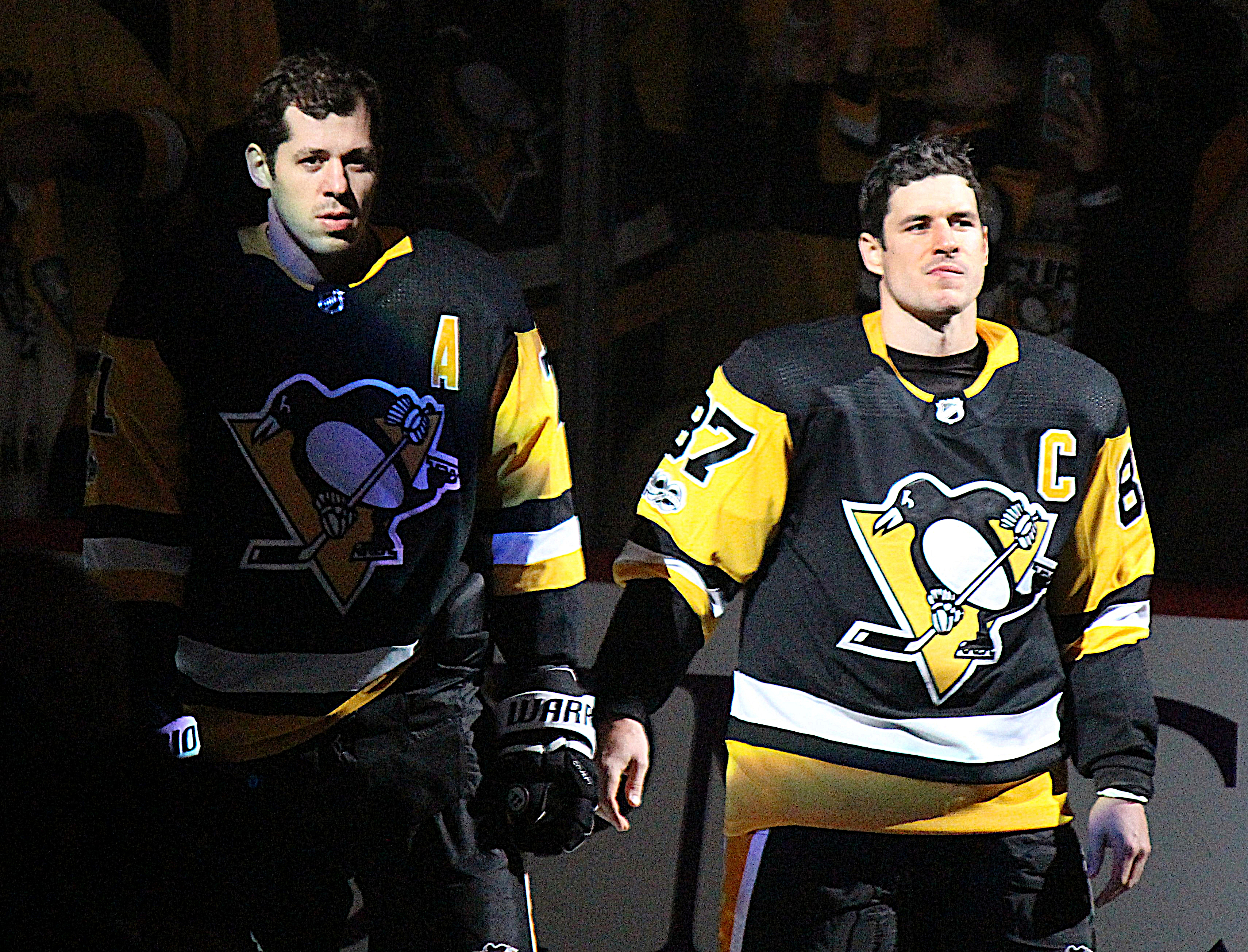 Pittsburgh Penguins captain Sidney Crosby and Evgeni Malkin on opening night of the 2017-18 season prior to the banner raising for the Pens 2017 Stanley Cup win.